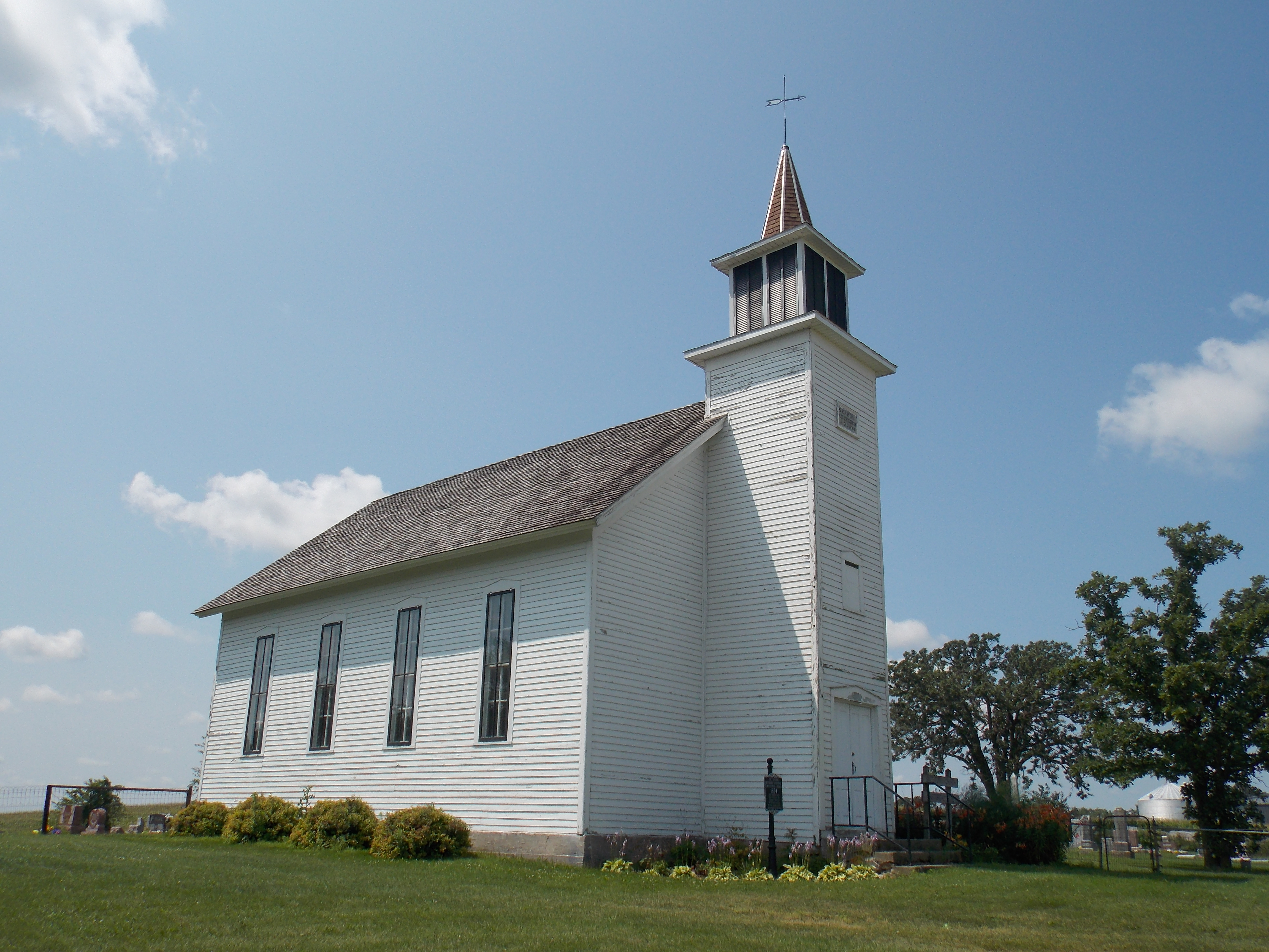 Sharon Methodist Episcopal Church (Smithtown Church) near Lost Nation, Iowa is listed on the National Register of Historic Places.